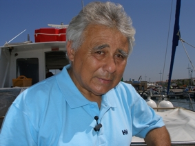 Massimo Scarpati